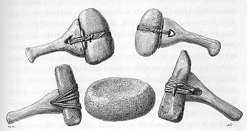 Stone hammers and an anvil for crushing bones